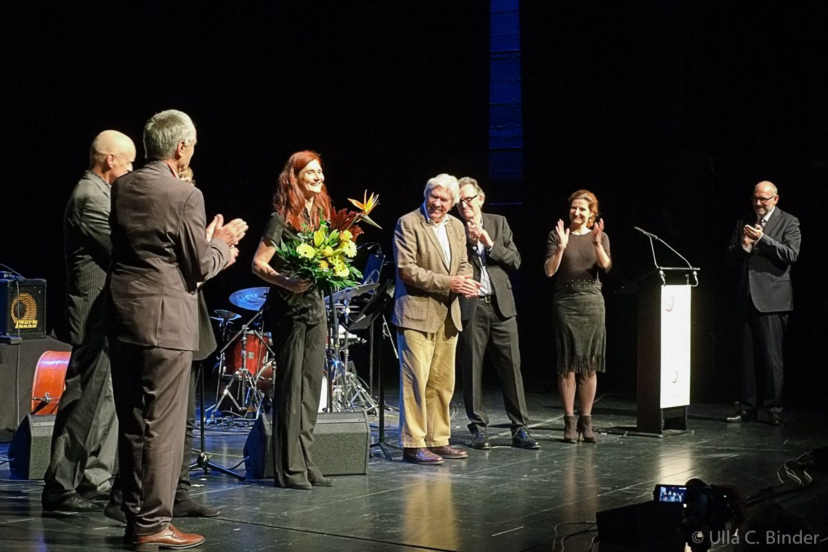 Angelika Niescier receiving Albert-Mangelsdorff-Preis 2017. Location: Haus der Berliner Festspiele